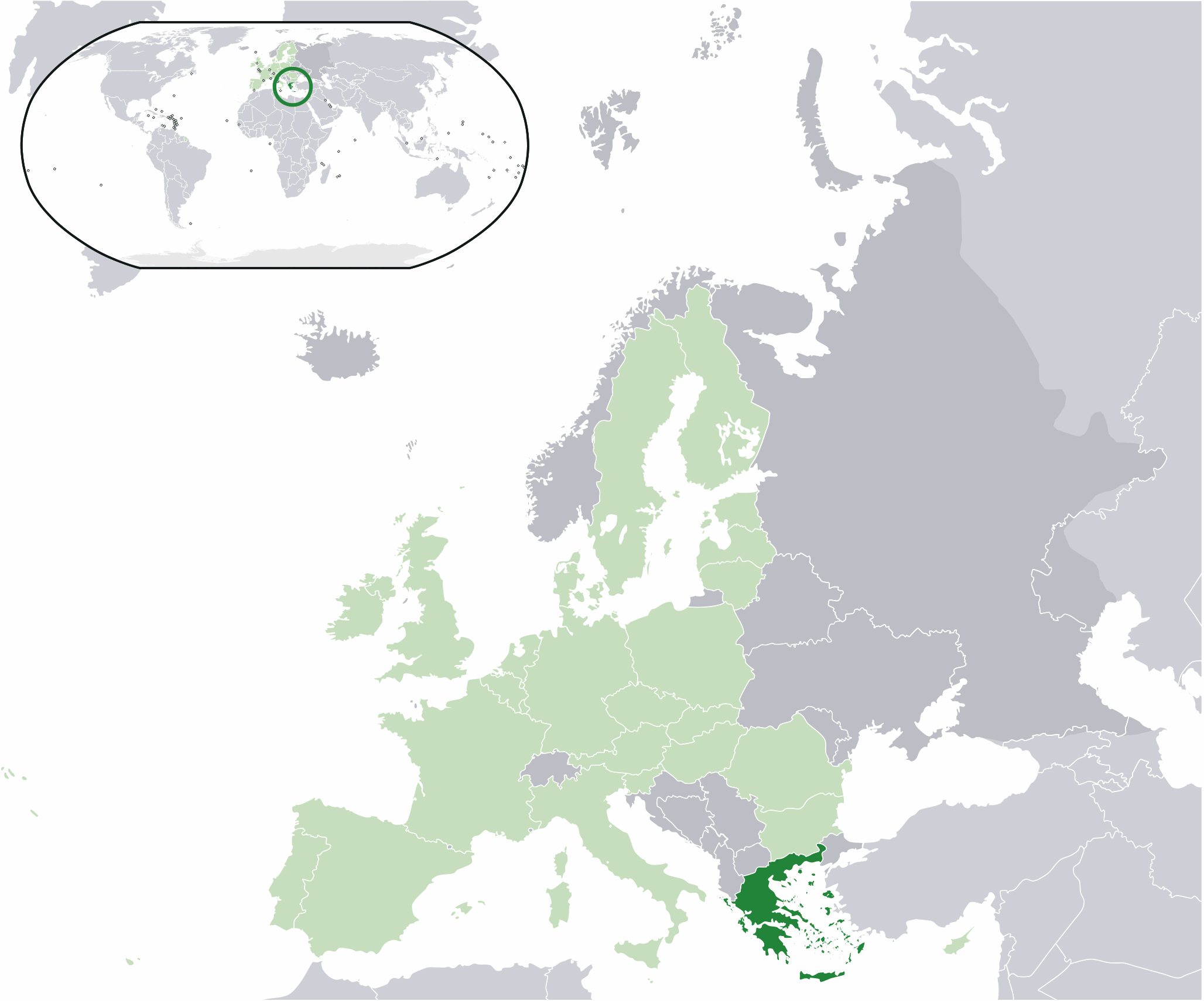 Location map: Greece (dark green) / European Union (light green) / Europe (dark grey); inspired by and consistent with general country locator maps by User:Vardion, et al.